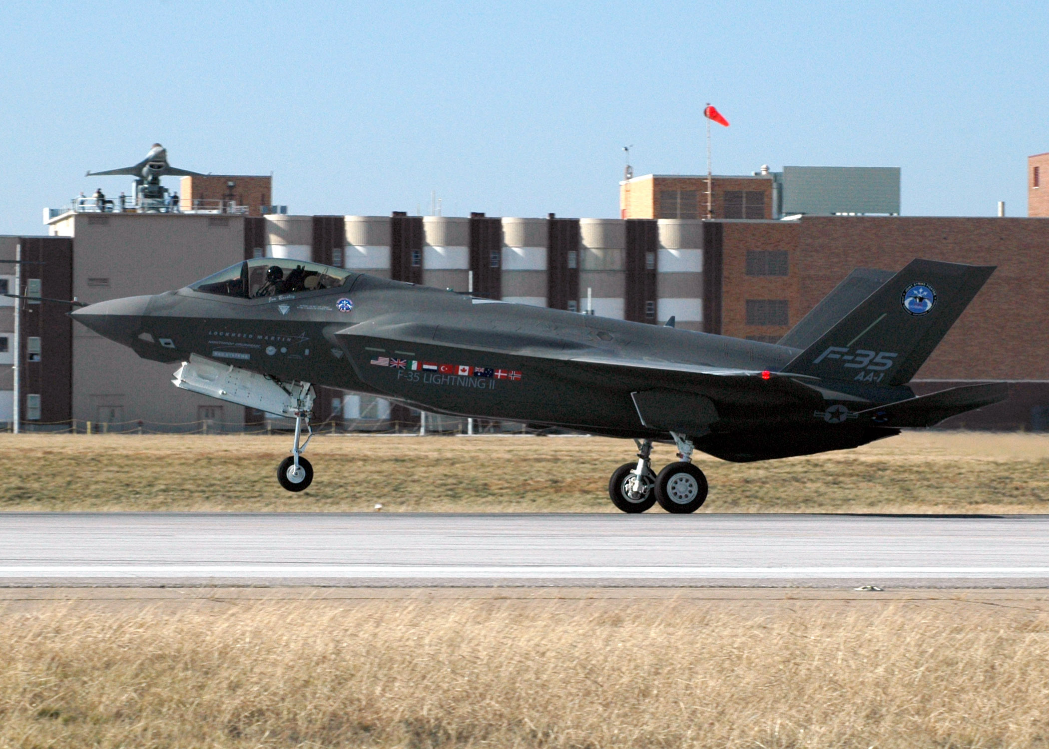 Fort Worth, Texas - The F-35 Joint Strike Fighter Lightning II, built by Lockheed Martin takes off for its first flight to test the aircraft's initial capability at Joint Reserve Base Fort Worth.